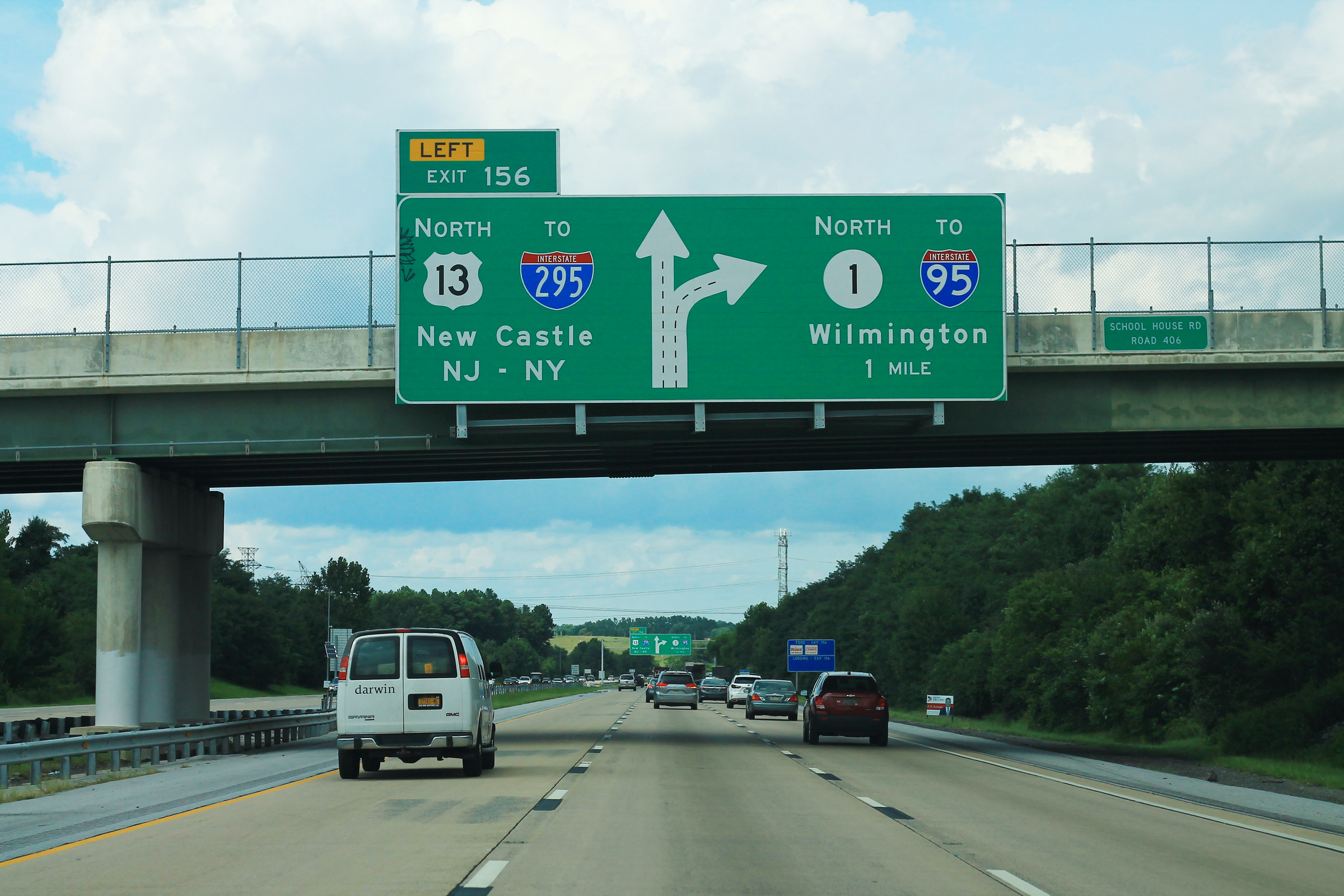 DE1 North - Exit 156 - US13 North to I-295